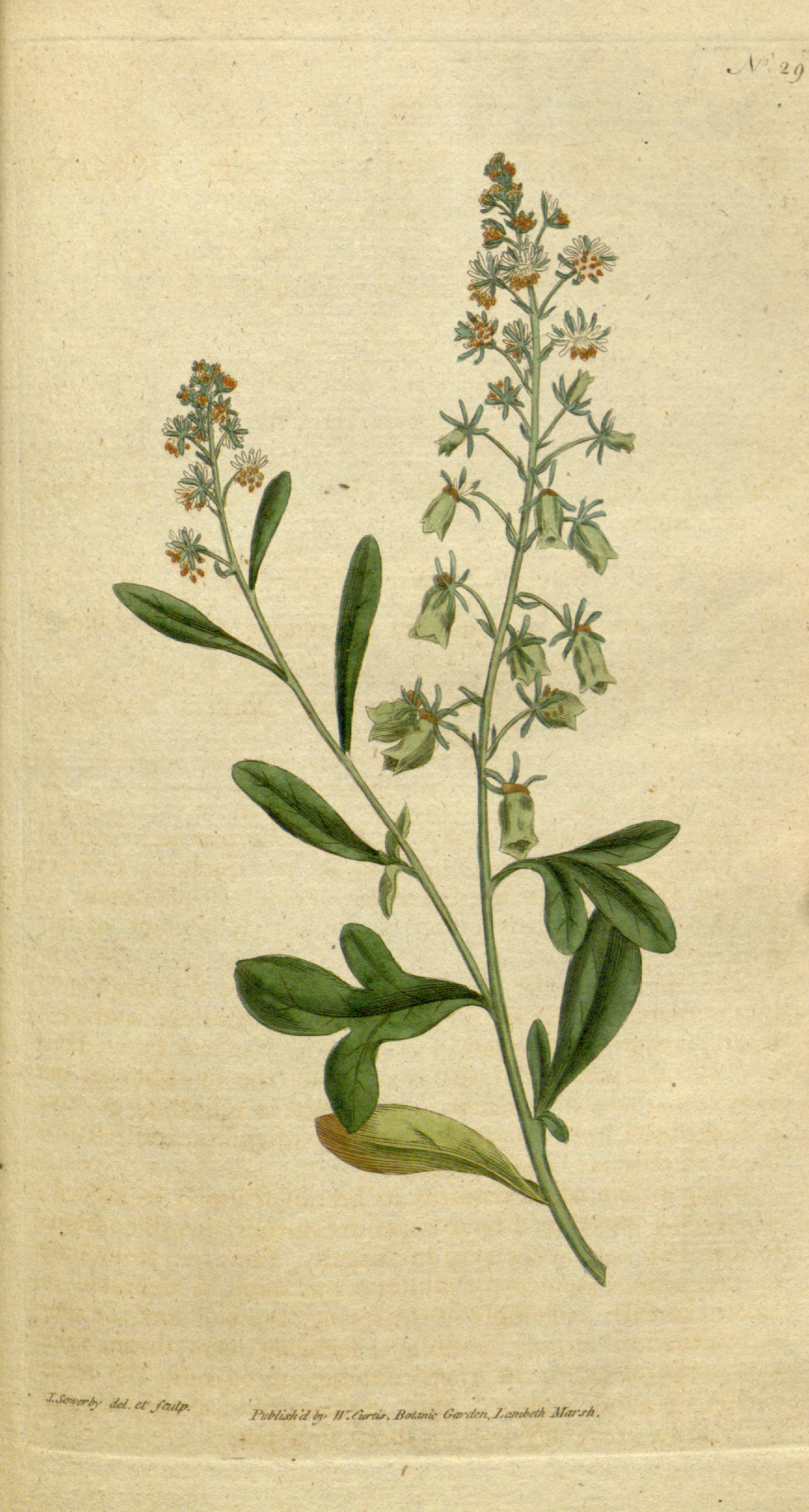 This is Plate 29 from The Botanical Magazine, Volume 1. Reseda odorata